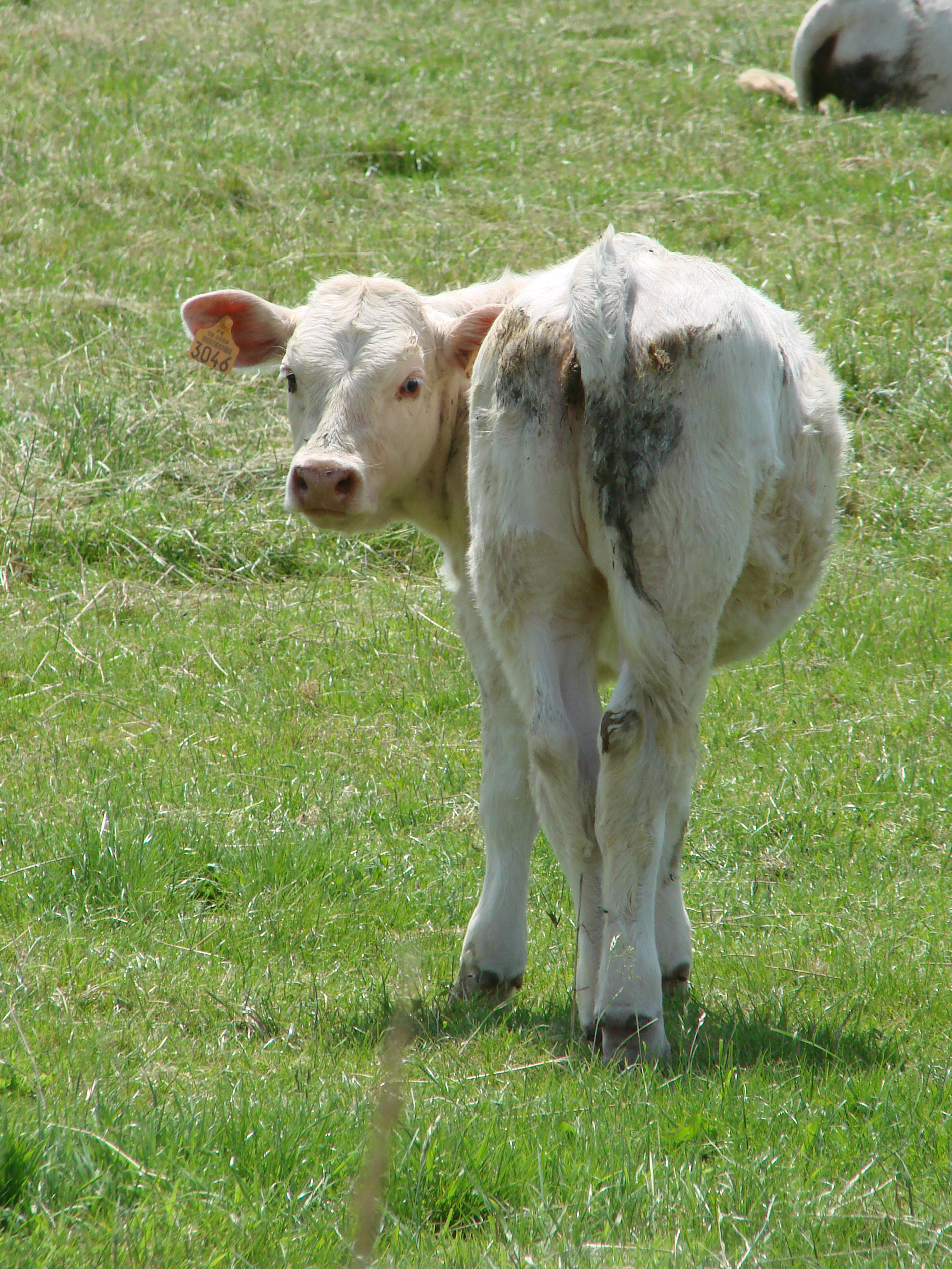 Calf (Charolais breed), Ardennes(08), France.